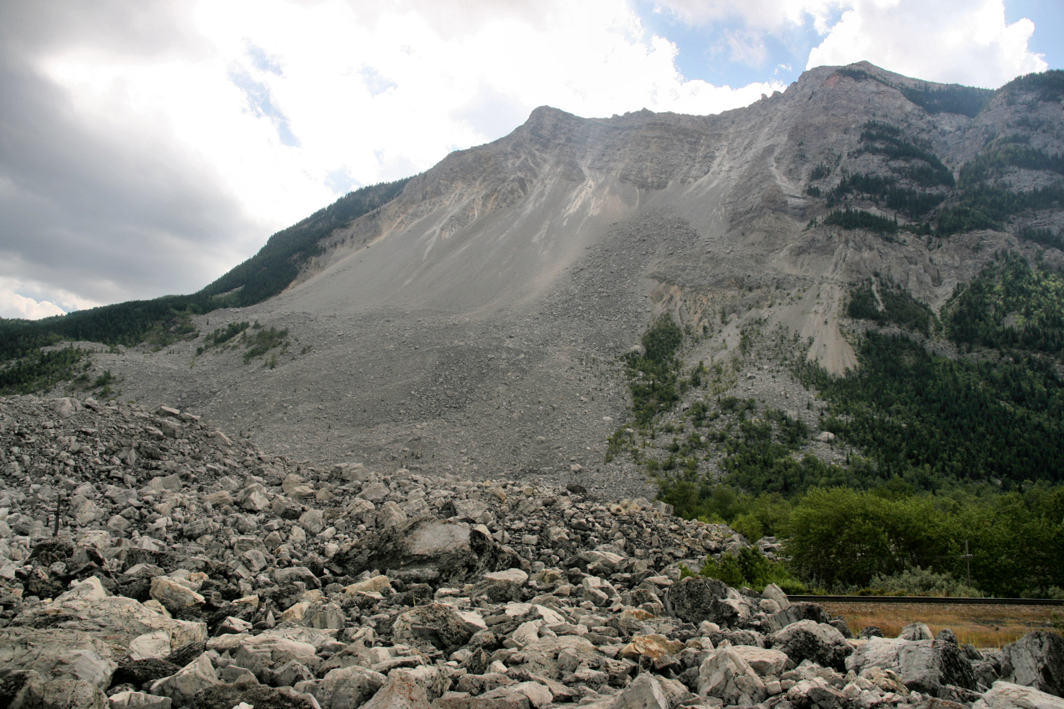 Frank Slide - natural landslide area in Frank, Alberta, Canada.